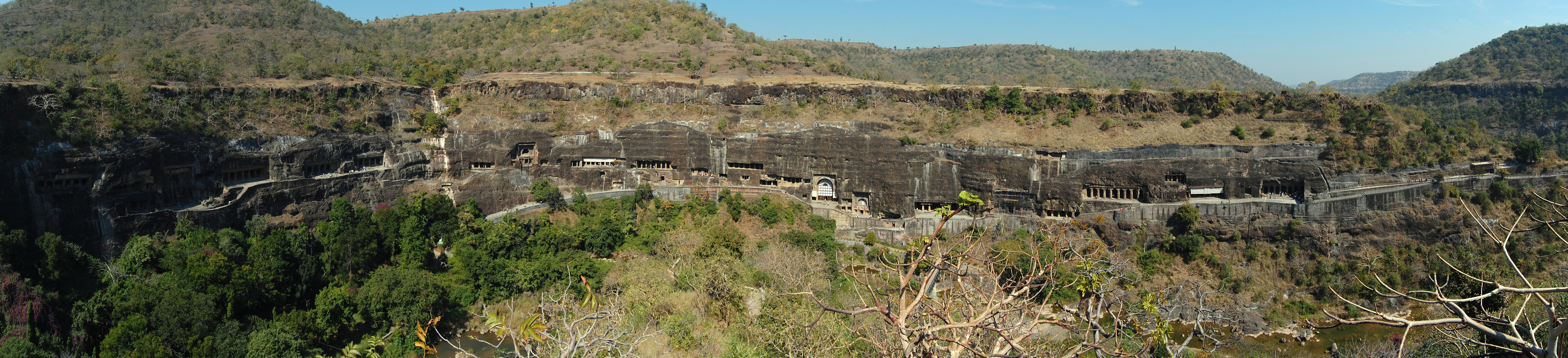 Ajanta Caves, India.